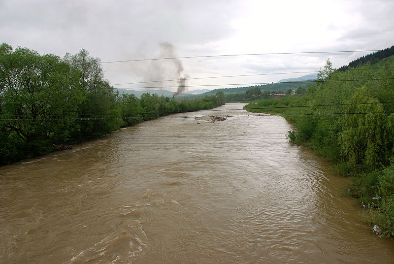 The Vişeu river at Leordina